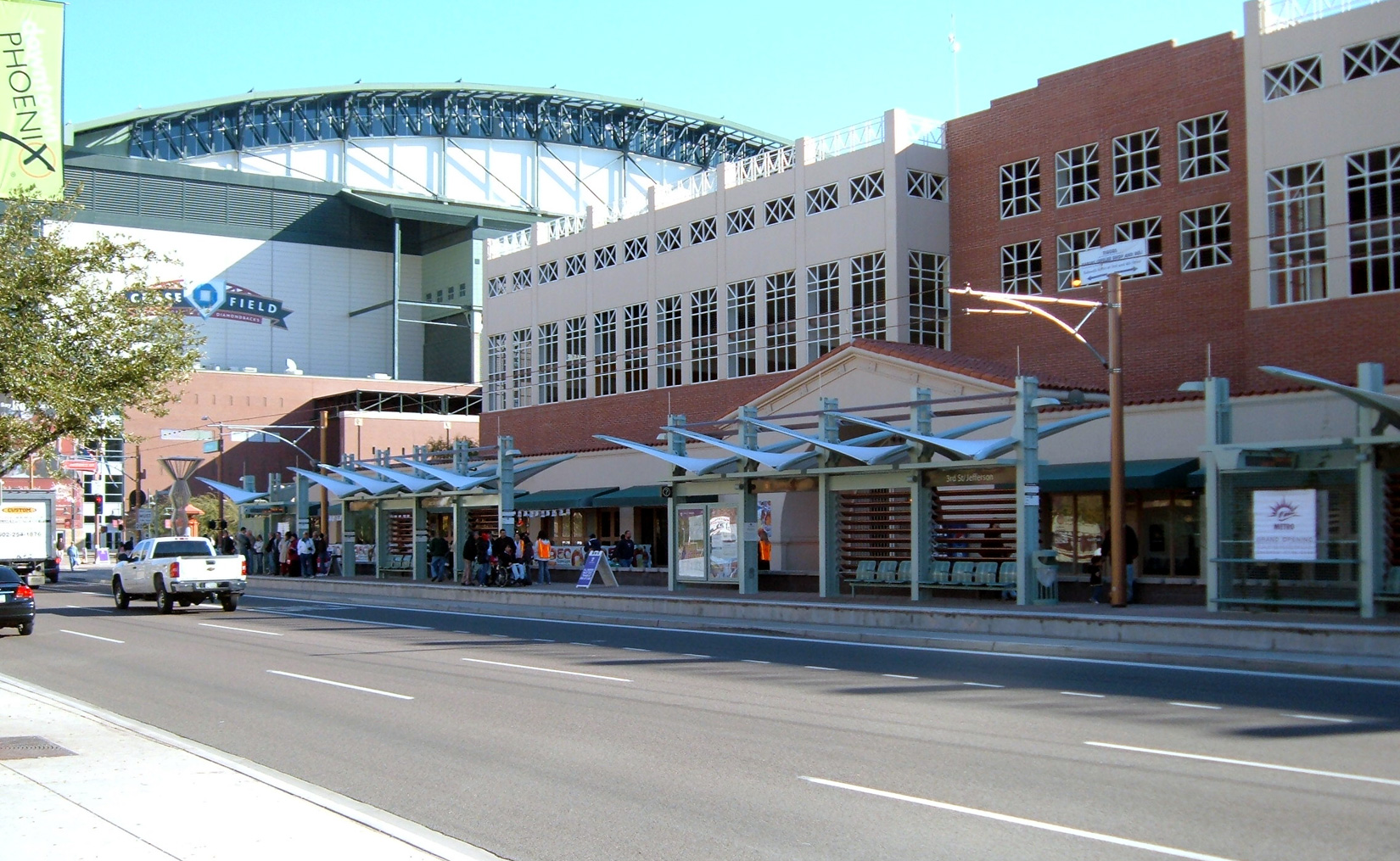 Photograph of the Convention Center/Ballpark/Arena (or Washington at 3rd Street) Station of METRO Light Rail that serves the Phoenix area, Arizona, USA. This is the eastbound station, located about 500 feet south of the westbound station. Visible in the left background is Chase Field. This photograph was taken during the light rail's grand opening celebration on December 27, 2008.